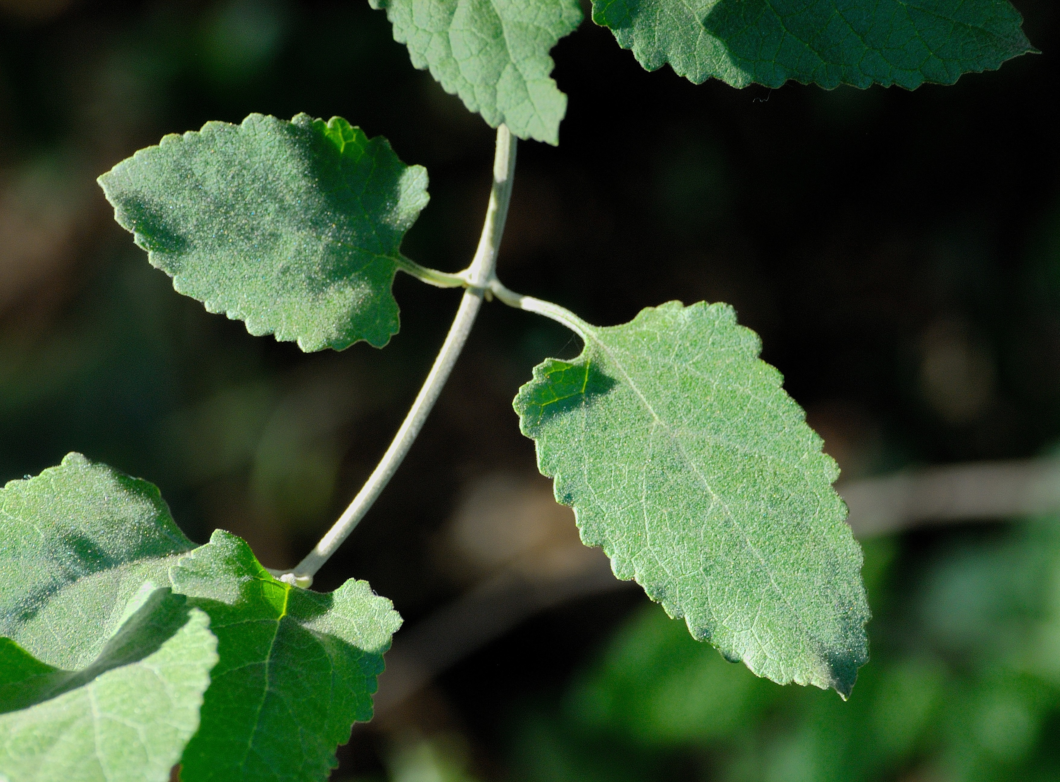 Leaves of a White climbing sage, Jan Celliers Park, Pretoria